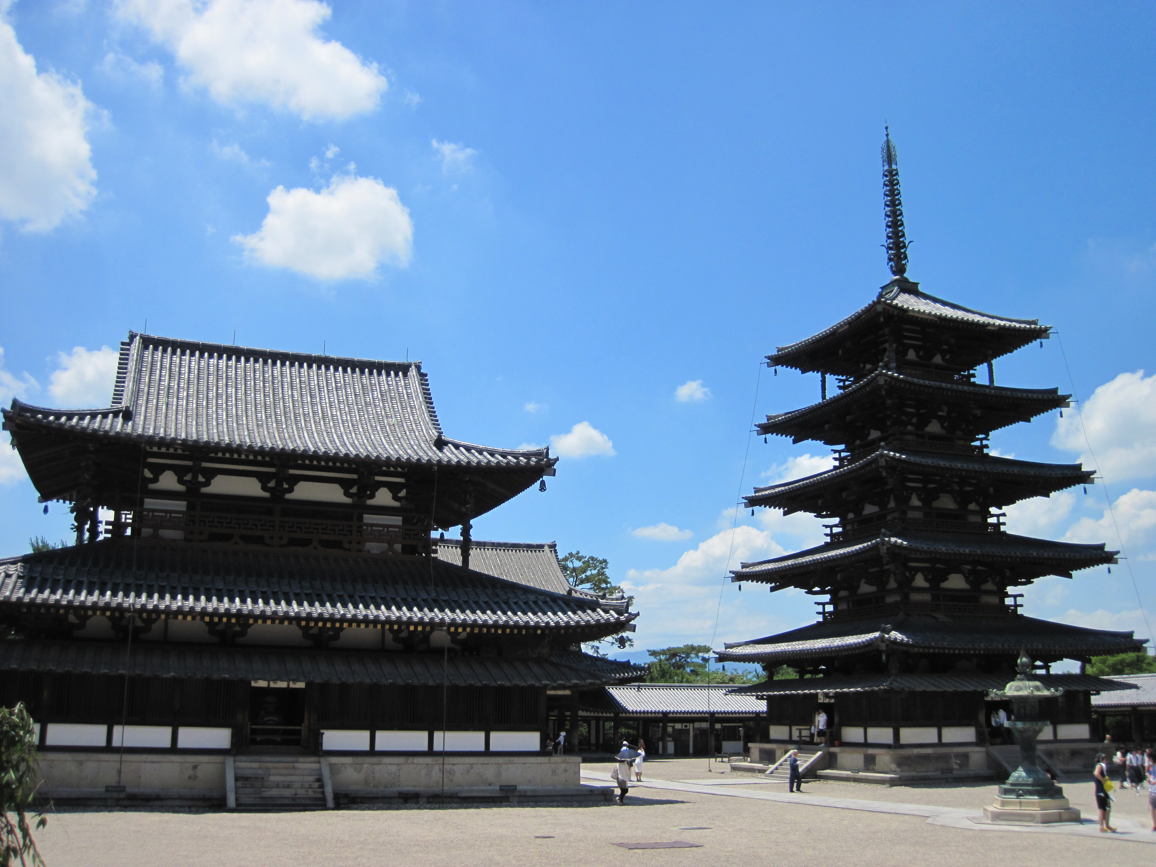 Horyu-ji National Treasure World heritage 国宝・世界遺産法隆寺